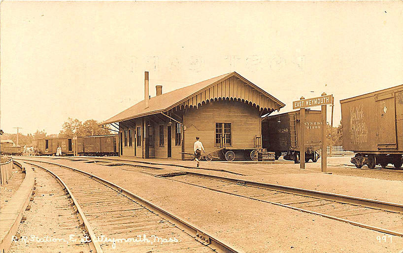 Early divided back postcard of East Weymouth station